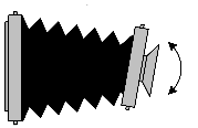 Chris Heald, self created